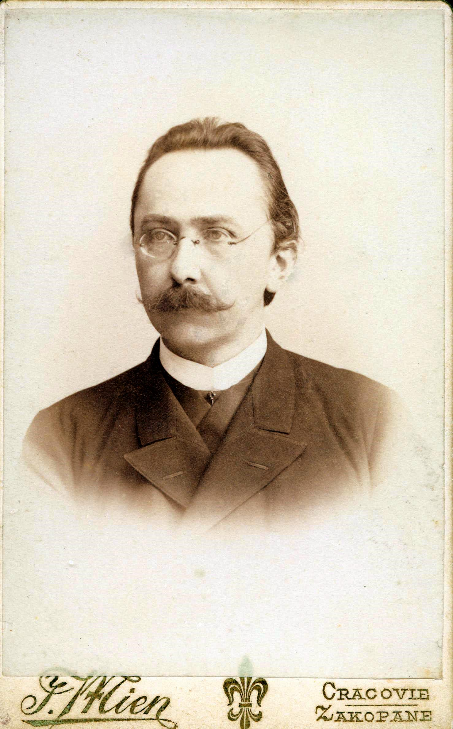 It's my own faithtul copy of photograph from August Witkowski family archive